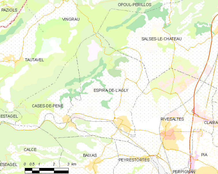 Map of French municipality